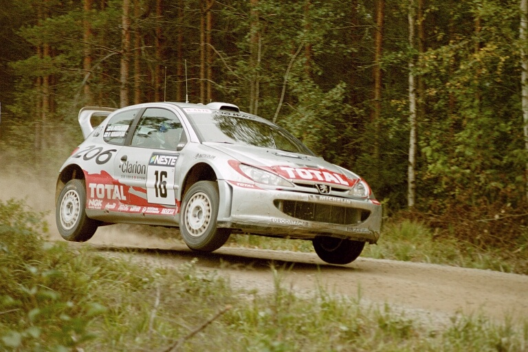 Harri Rovanperä at the 2001 Rally Finland.